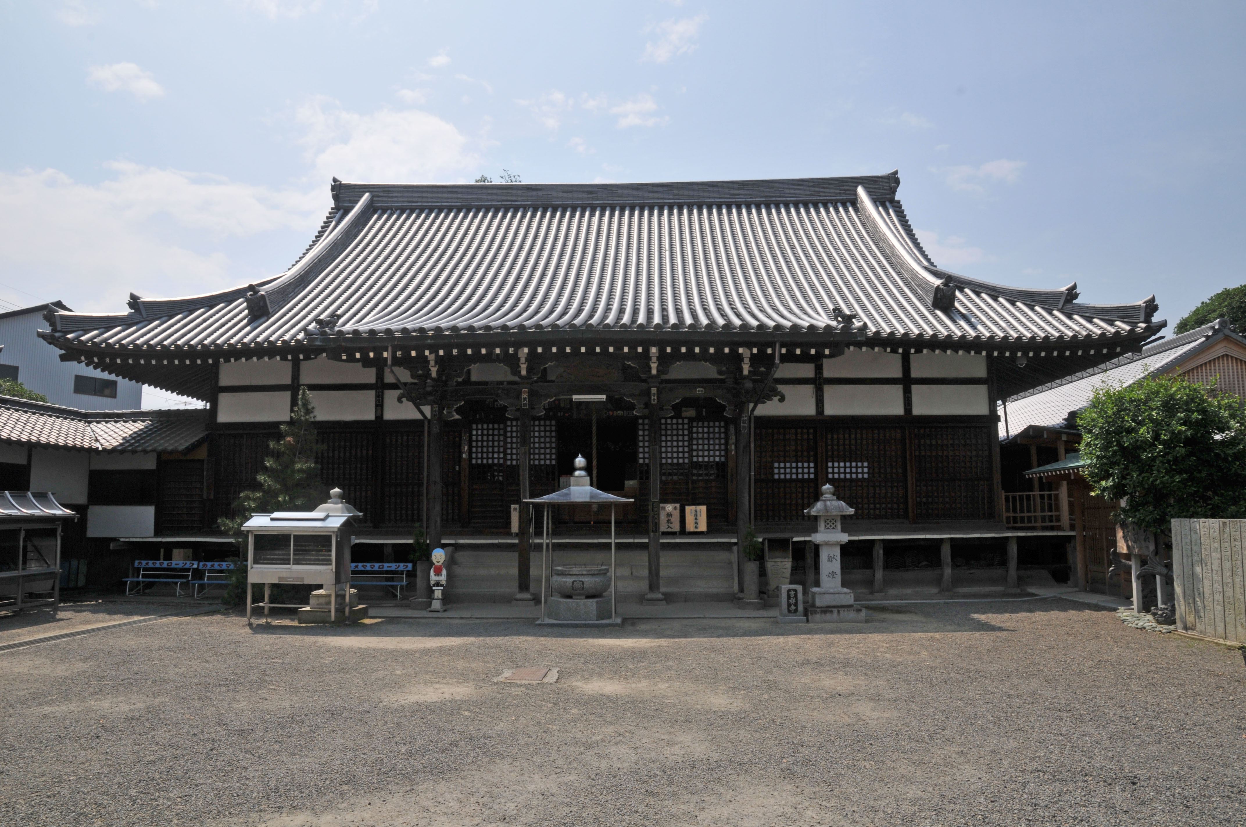 Main temple, Kichijō-ji